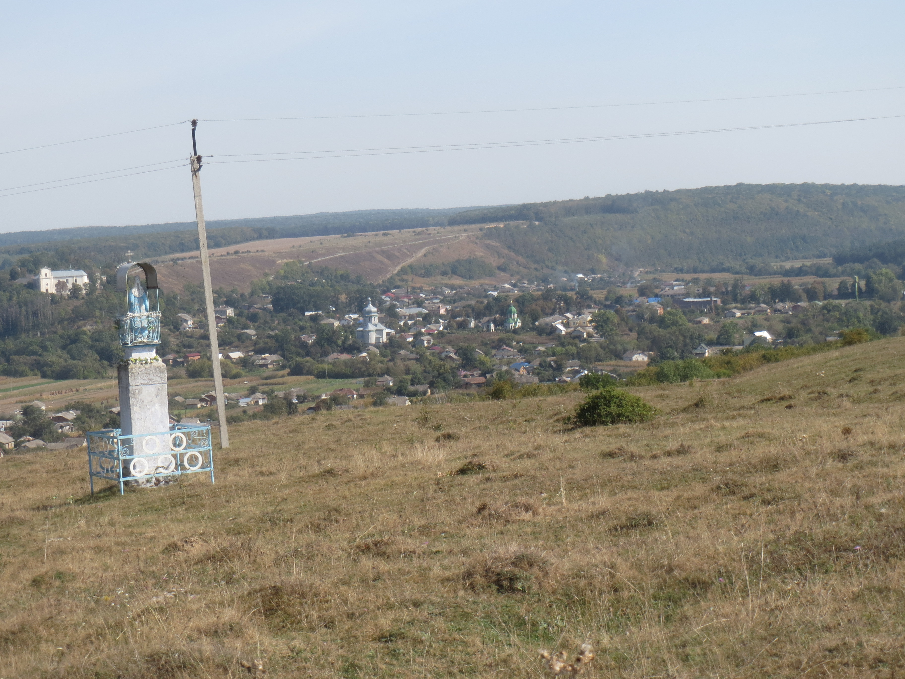 View of Budaniv (1)